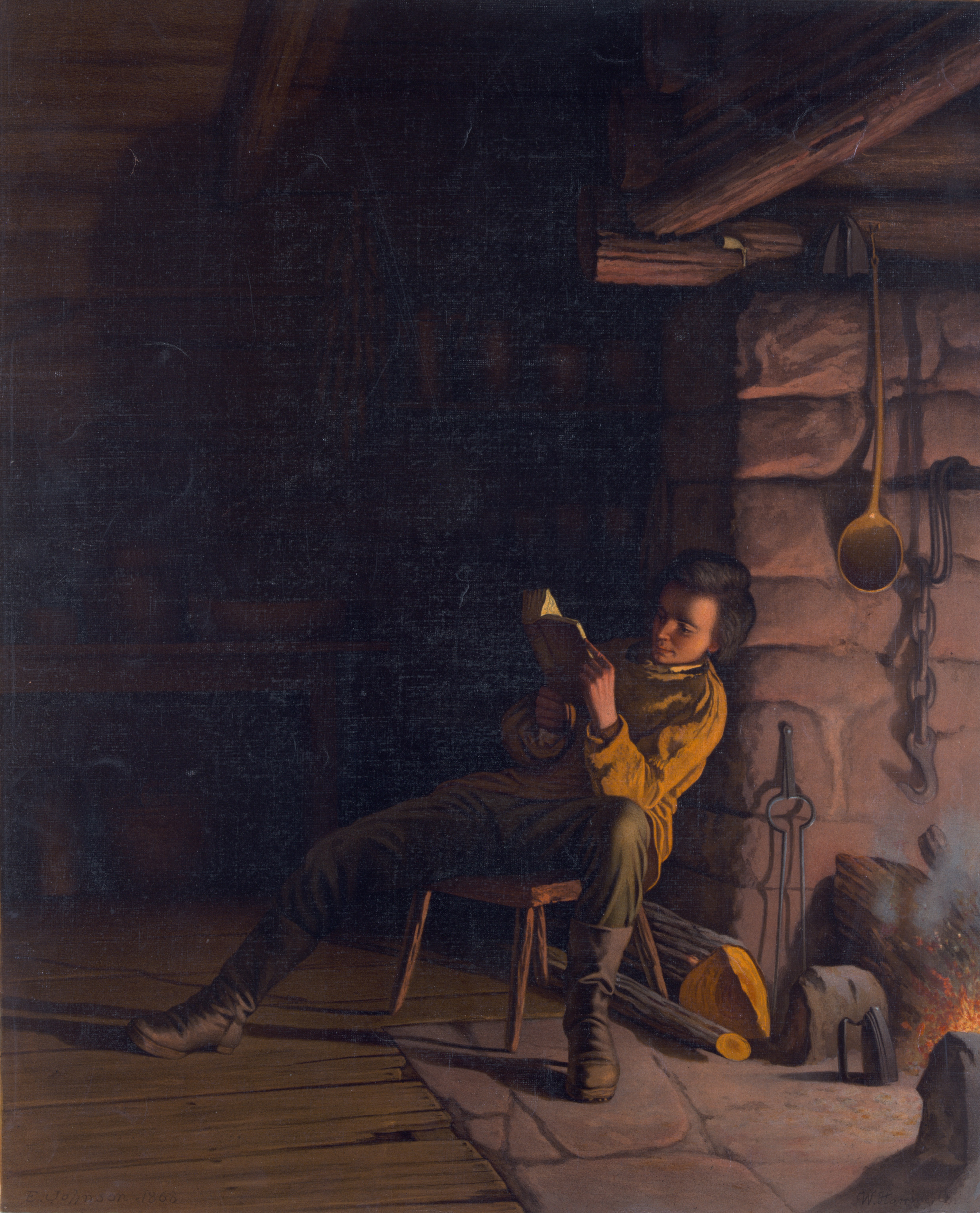 The boyhood of Lincoln—An evening in the log hut SUMMARY: Abraham Lincoln, full-length portrait, reading by fireplace. MEDIUM: 1 print : chromolithograph ; 54.3 × 43.6 cm.